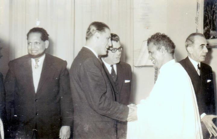 Arab leaders and politicians welcome Mauritanian leader Ahmed Zold Horma